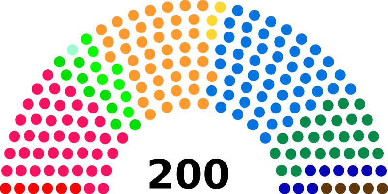 Seats diagramme of Swiss National Council (1987)